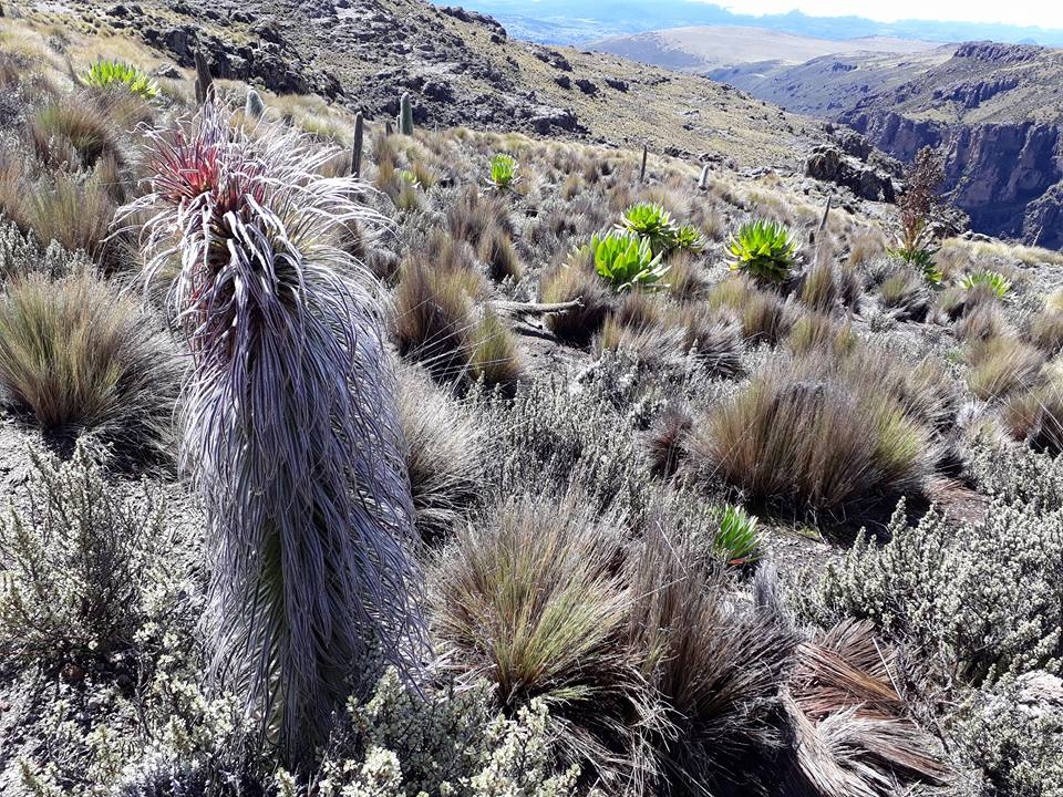 Giant lobelia and Senecio plants in Mt Kenya. More photos